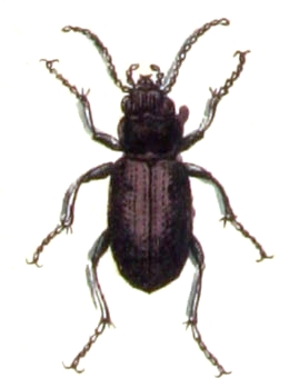 Notiophilus aquaticus, from Calwer's Käferbuch, Table 1, Picture 11. Taxonomy was updated to 2008, using mostly the sites Fauna Europaea and BioLib. Please contact Sarefo if the determination is wrong!